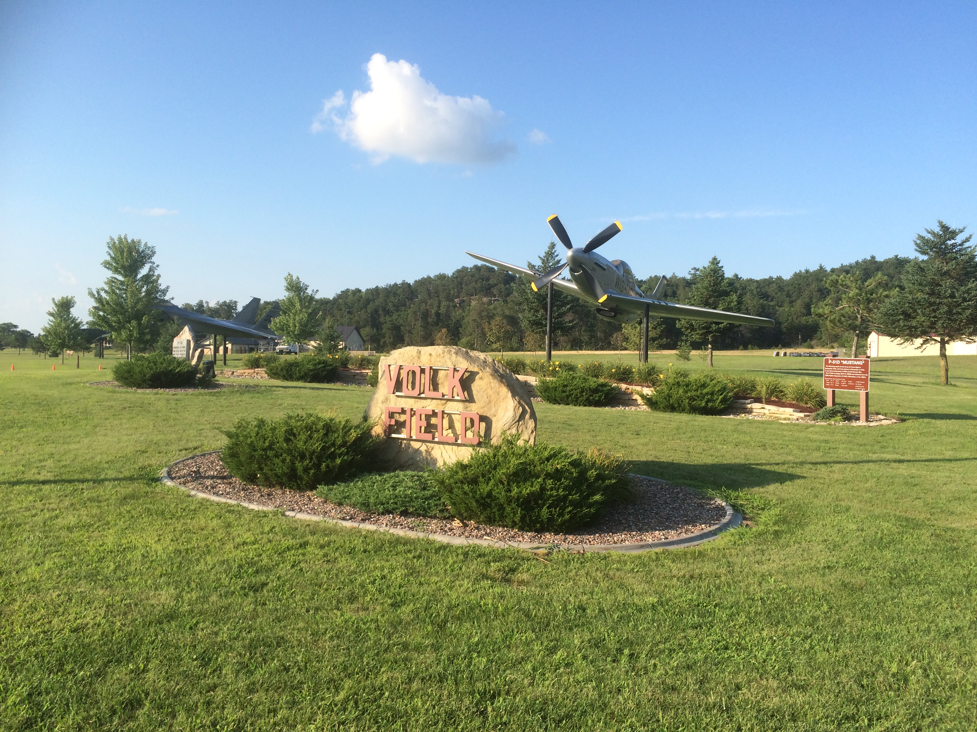 Main Gate to Volk Air National Guard Base